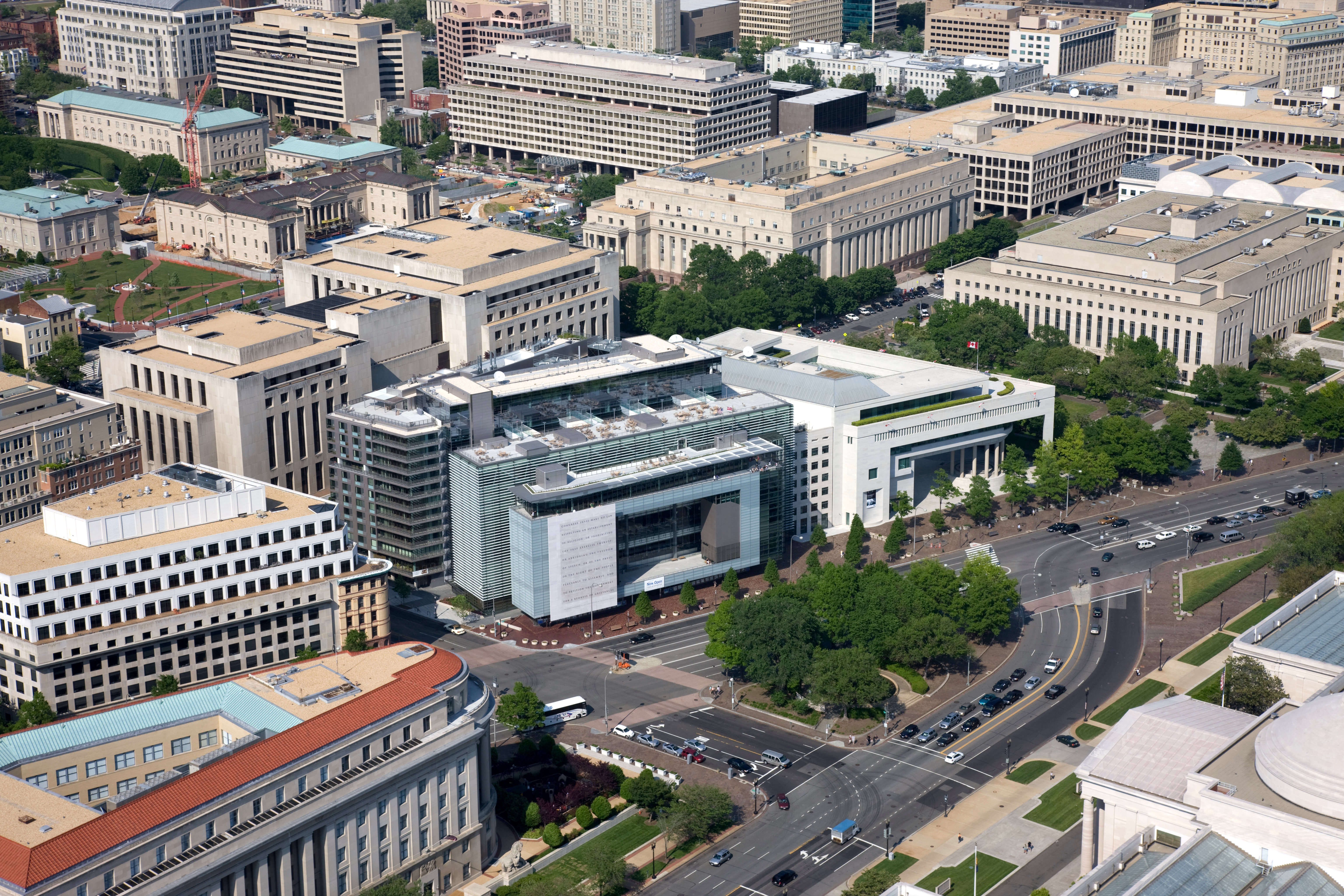 Aerial view of the Newseum (center, left) and the Embassy of Canada (center, right) in Washington, D.C.